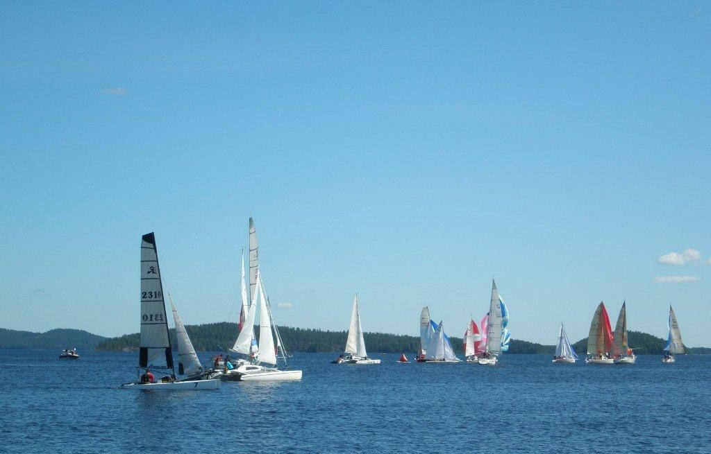 Päijännepurjehdus, sailing competition on Lake Päijänne.